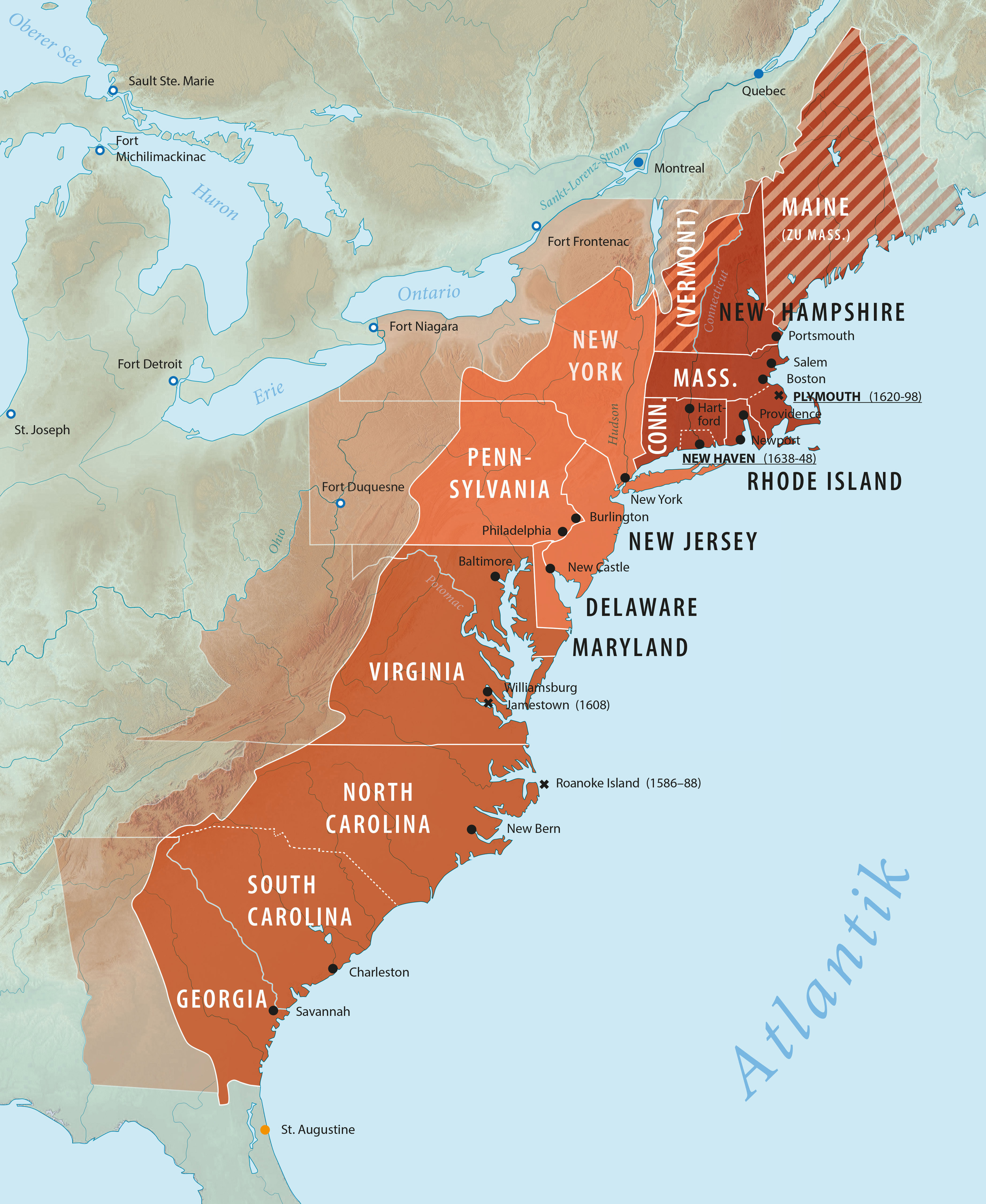 Thirteen colonies in North America: political organization and location of individual colonies. Dark Red = New England Colonies. Bright Red = Middle Atlantic Colonies. Red-brown = Southern Colonies. Color indicated = area of today's states. (Cropped version of "Thirteencolonies politics.jpg")